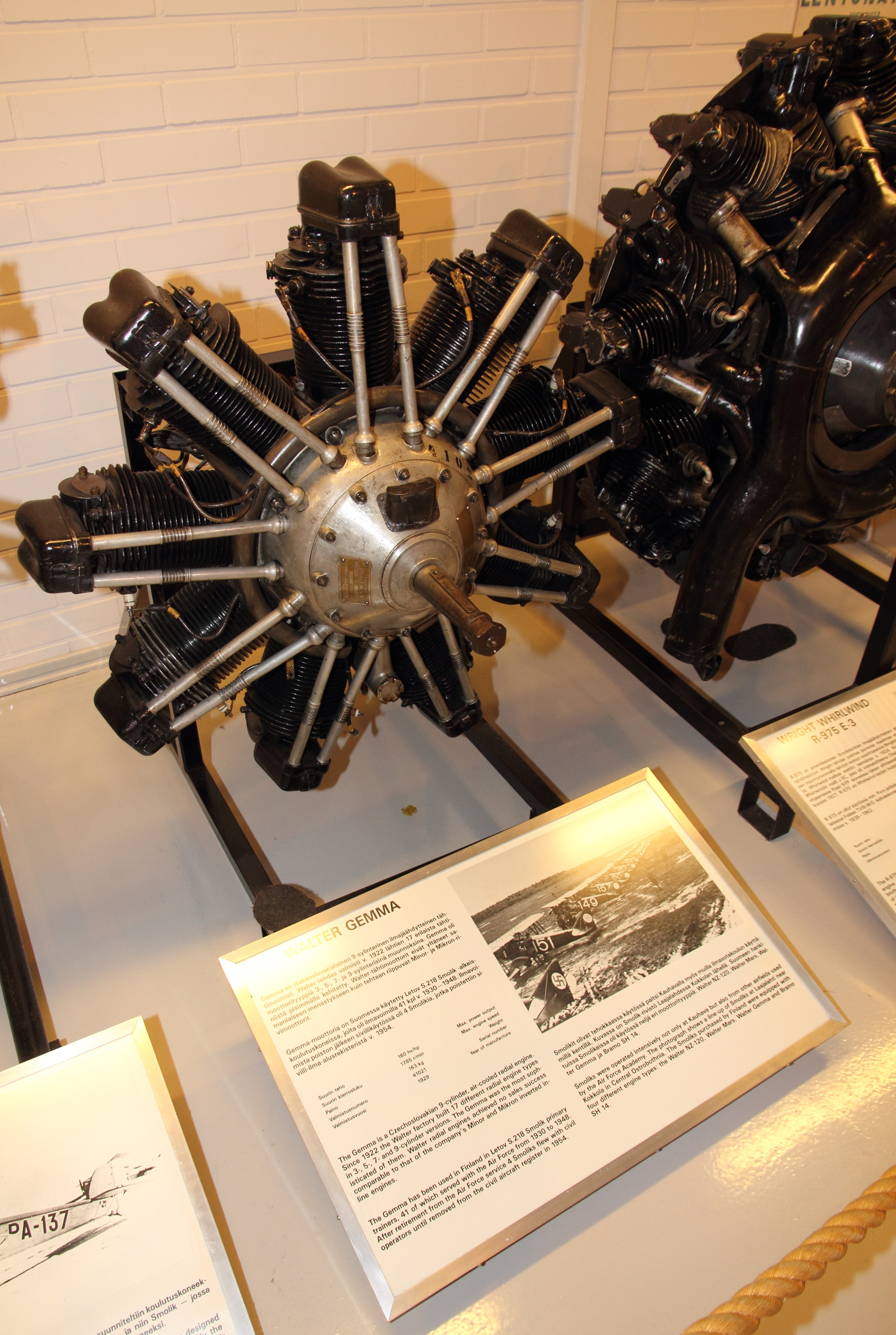 Walter Gemma aircraft engine in the Aviation Museum of Central Finland.